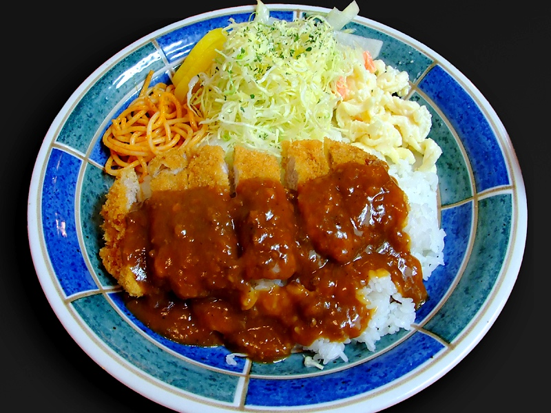 Yōfū Katsudon (Western-style pork cutlet on rice) at Nagaoka, Niigata Prefecture, Japan